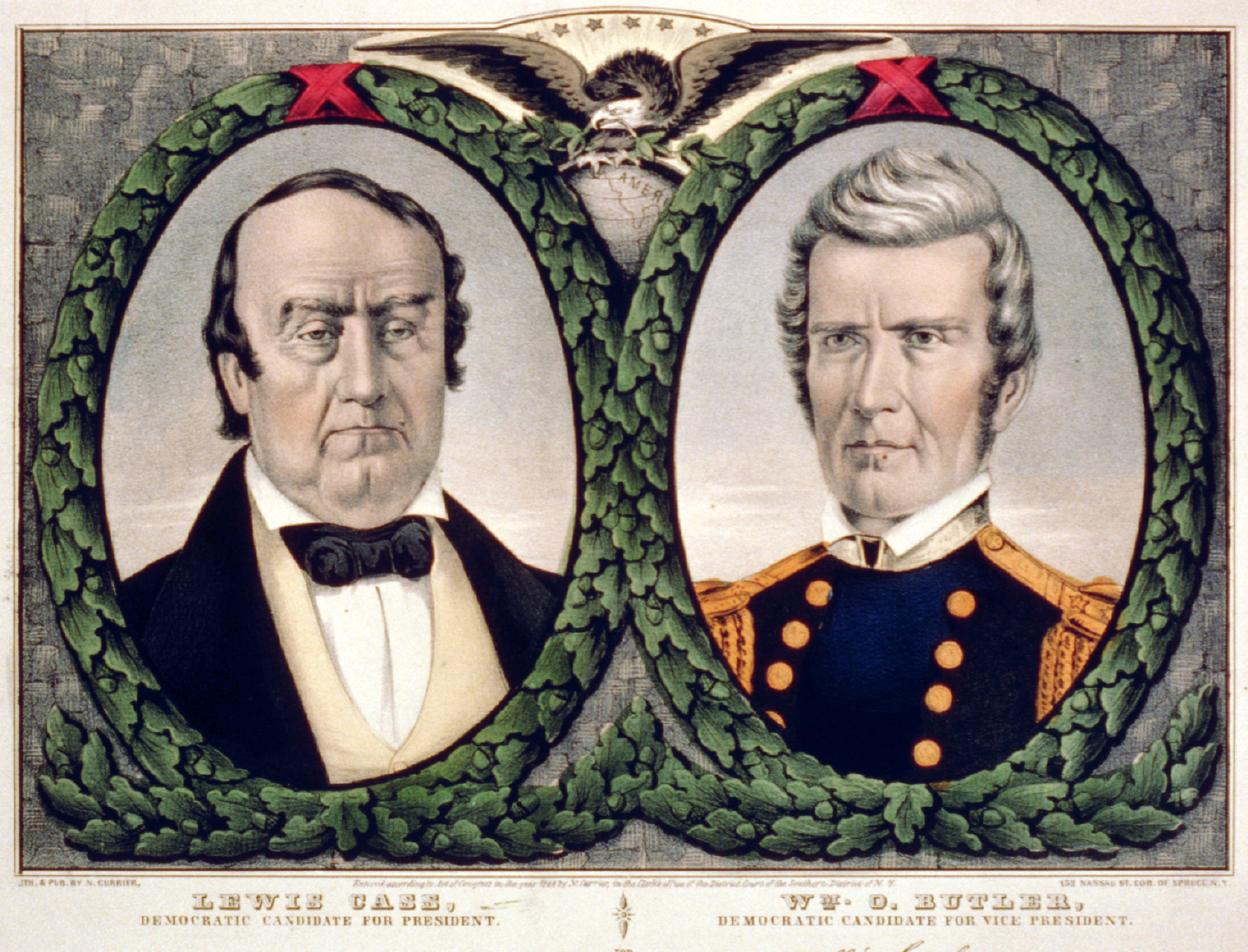 Campaign banner for Democratic candidates Lewis Cass and William O. Butler, produced for the 1848 presidential election